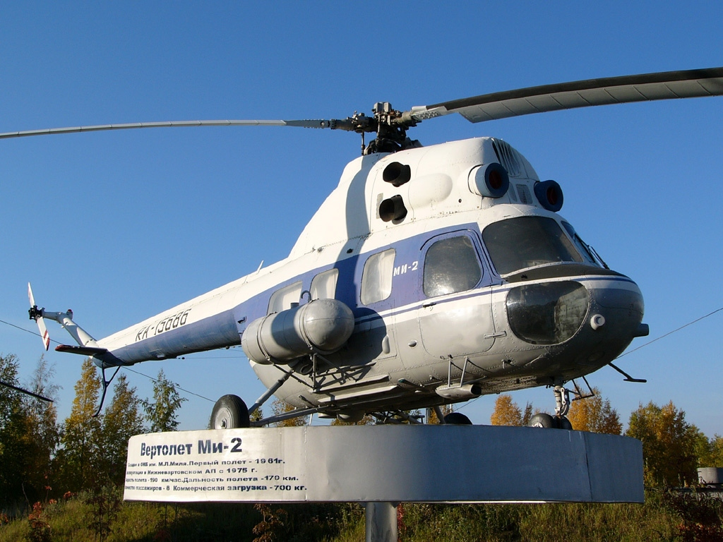 Nizhnevartovsk Aviation museum in the airport.